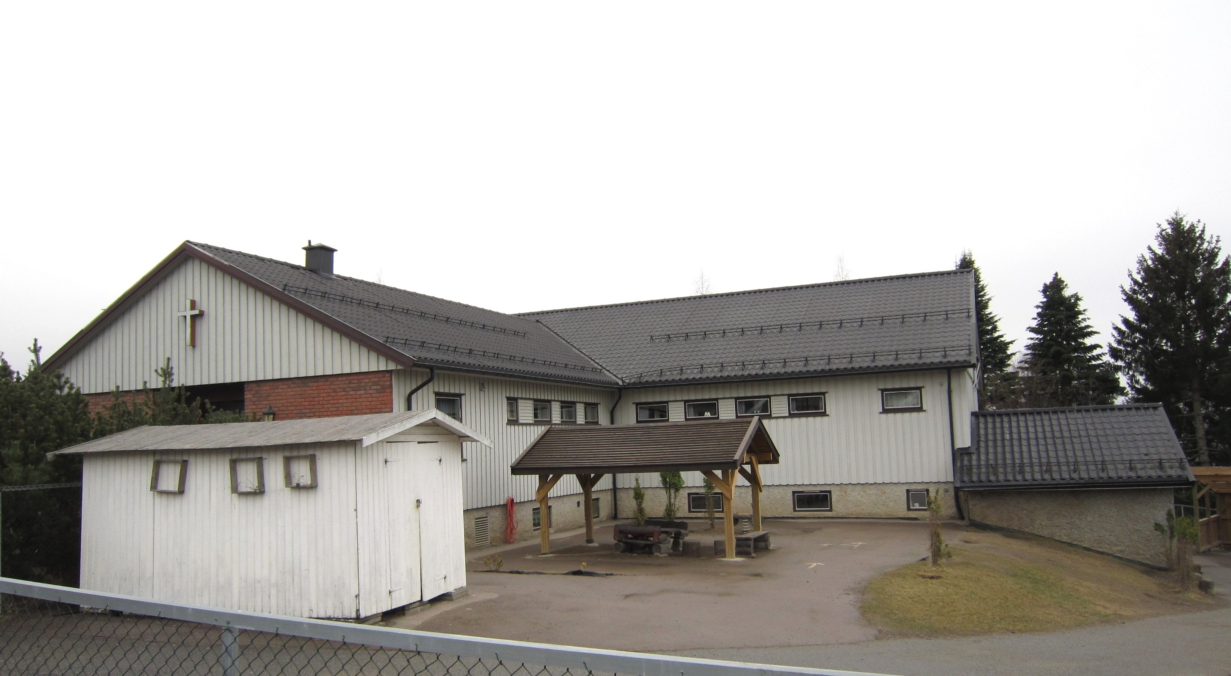 Sion pentecostal church at Kløfta, Norway